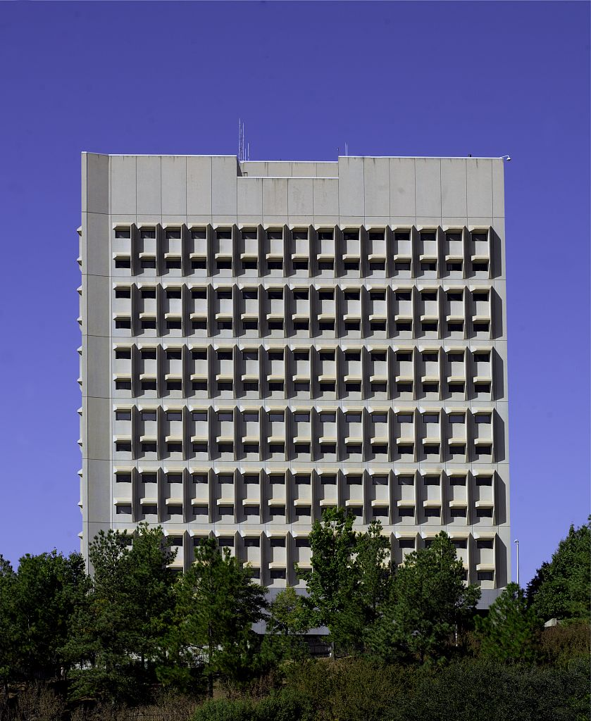 Strom Thurmond Federal Building and U.S. Courthouse located in Columbia, South Carolina. Exterior of Federal Building. Brutalist. Both buildings were designed by Marcel Breuer. The federal building is 16 stories with a basement and is connected to a low courthouse by a tunnel